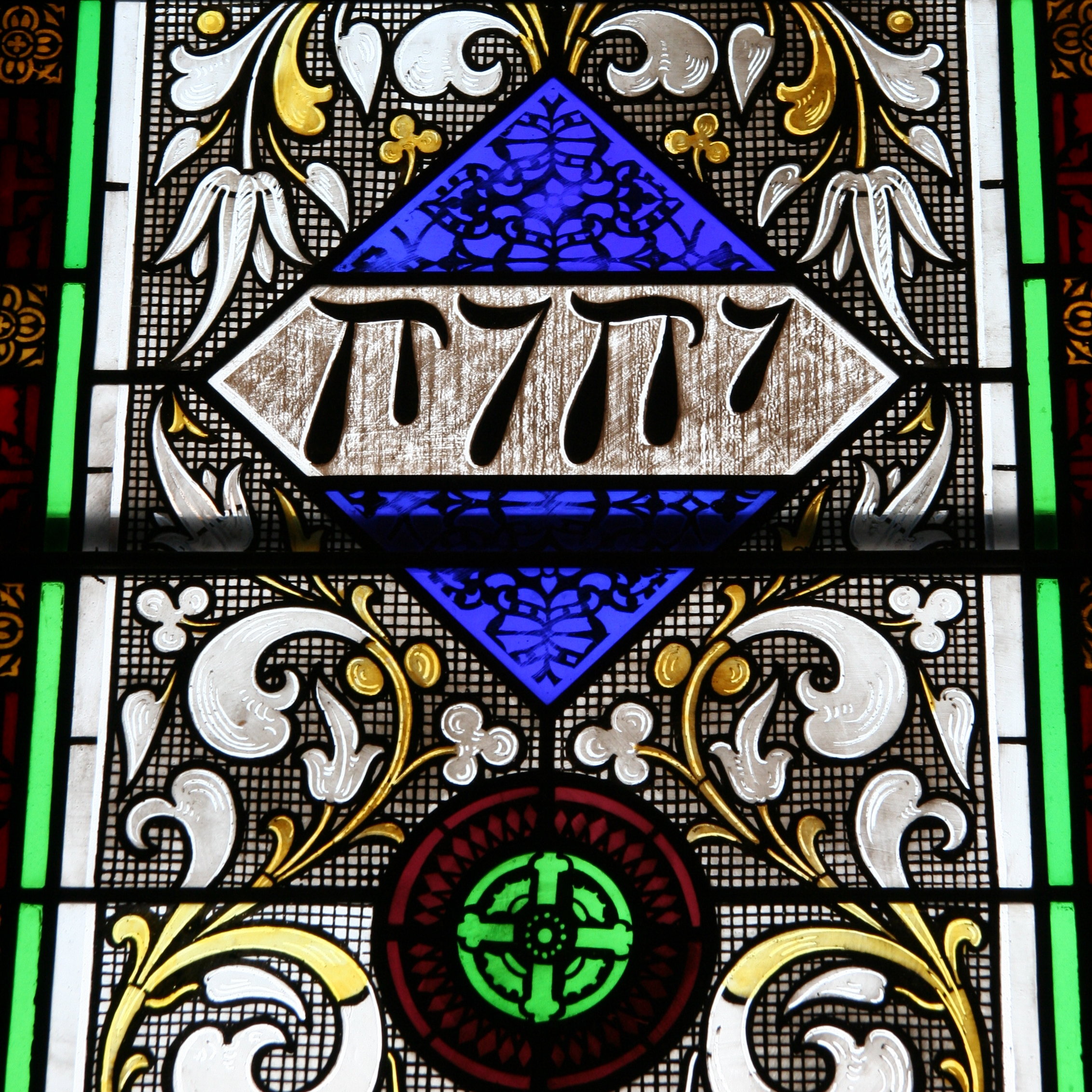 Detail of a stained glass window featuring a representation of the Tetragrammaton installed in Grace Episcopal Church soon after 1868 when the church was built in Decorah, Iowa